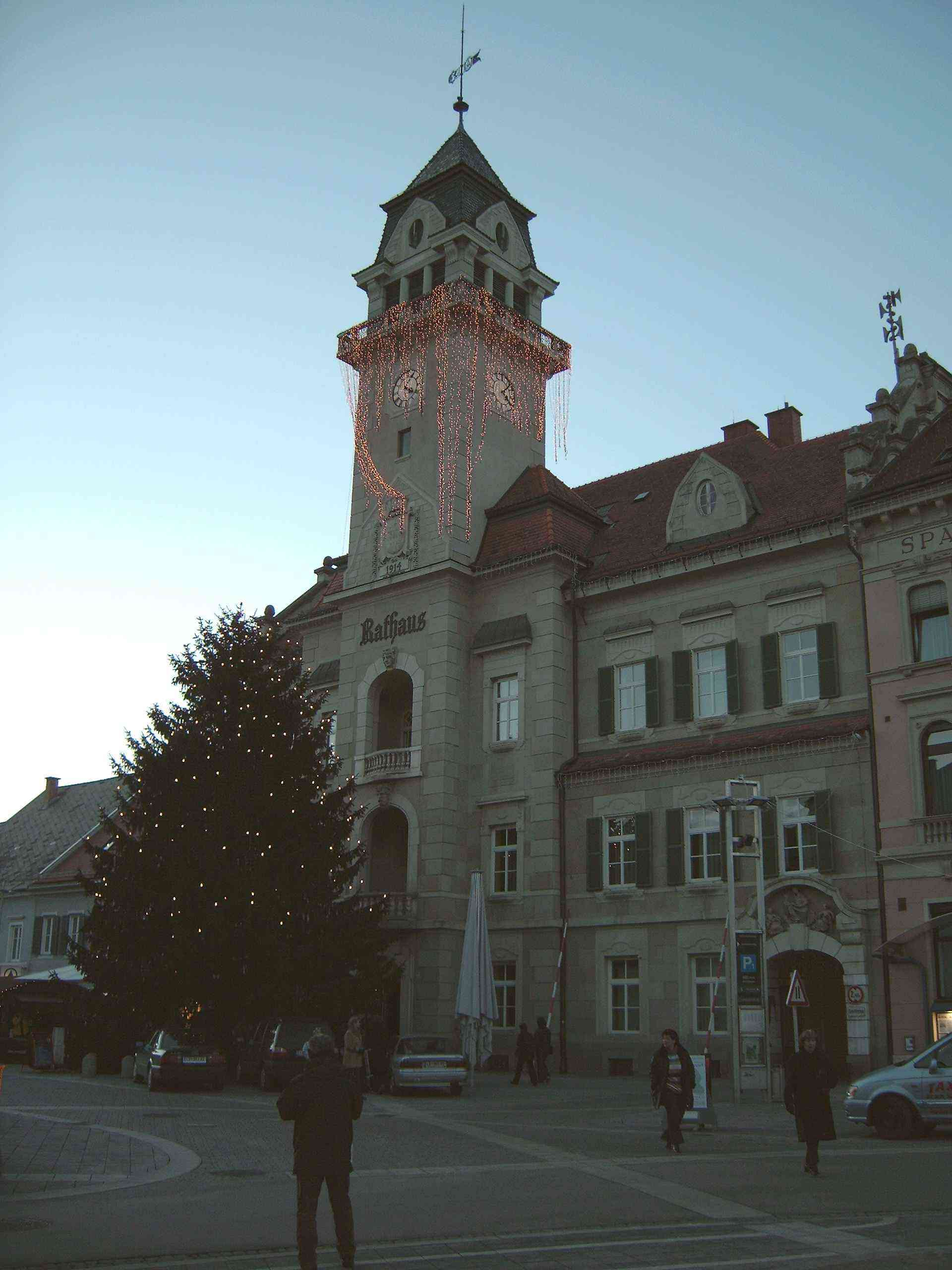 The town-hall of Leibnitz with Christmas illumination